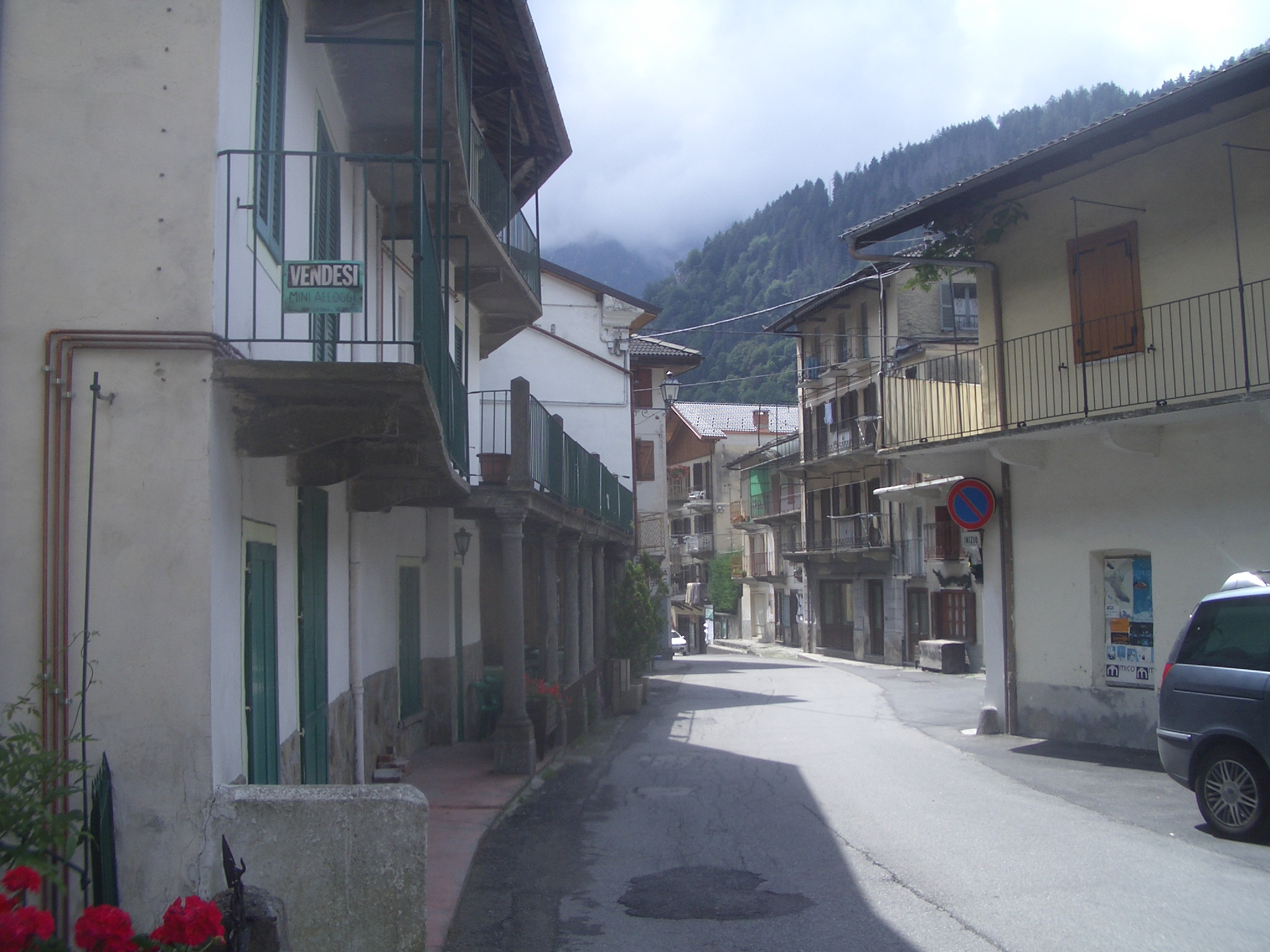 Ronco Canavese (Turin), a view of the village